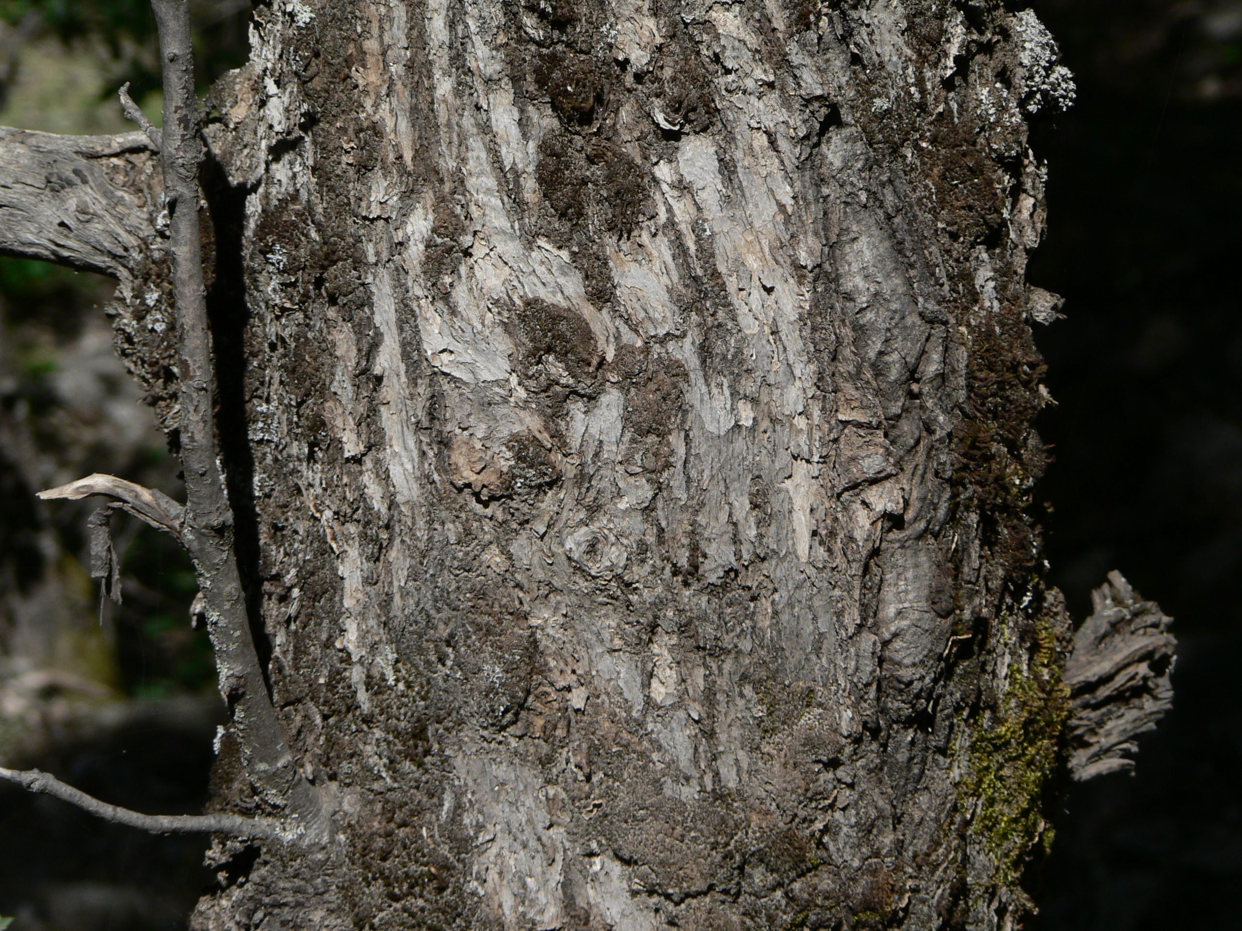 Canyon live oak